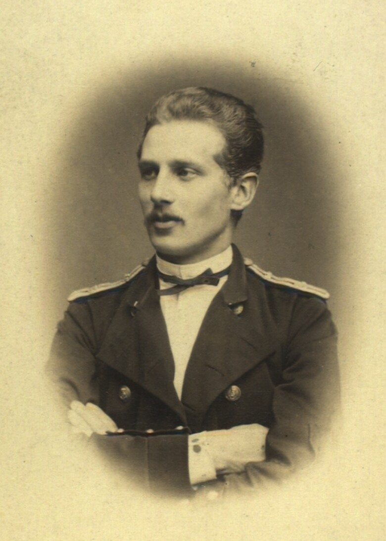 Portrait of a young Carl Frederick Wandel (1843–1930), Danish admiral, chief of the Navy and polar explorer